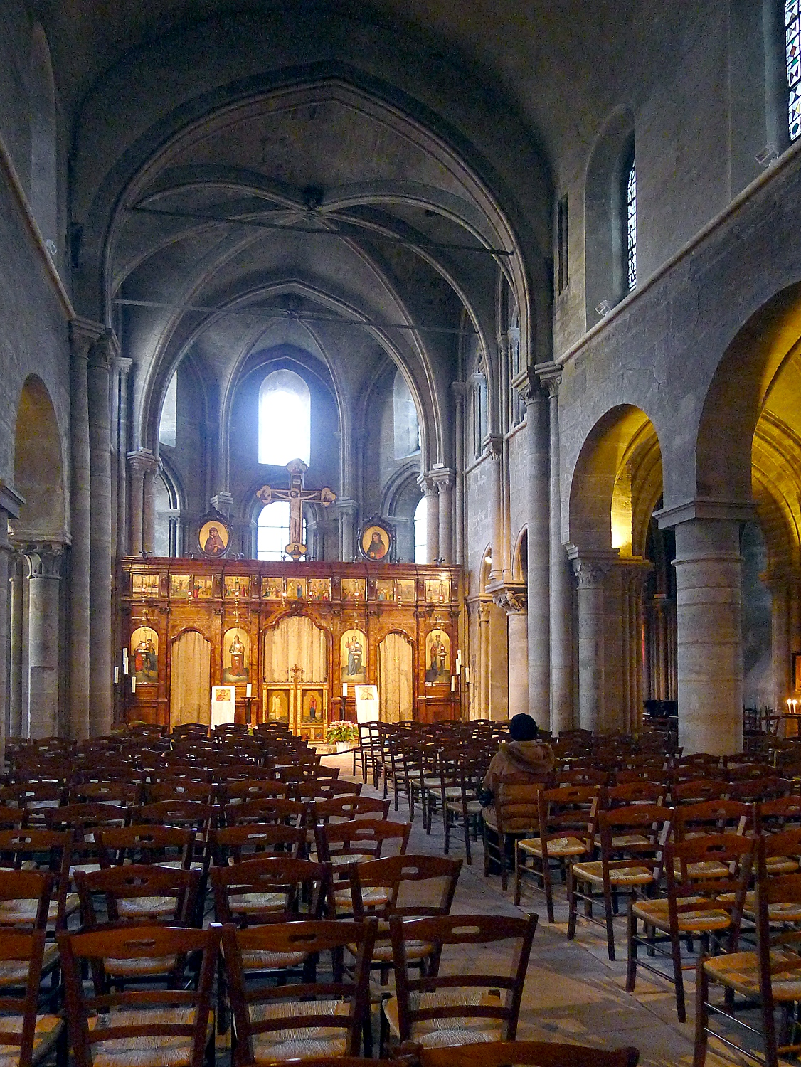 Saint-Julien-le-pauvre church - Paris